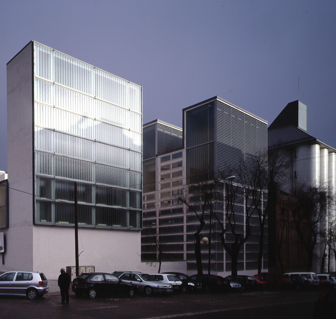 Exterior view of the Joaquín Leguina Regional Library and Madrid Regional Archives rehabilitation of the former El Águila brewery in Madrid, by Mansilla+Tuñón